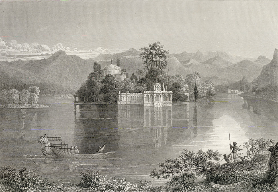 Palace of Jugmundur in Oodipoor Lake